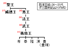 the geneology of Baekje( 26th King ~ 31st(tha last) King) / 百済王系図(26代～31代(末代))